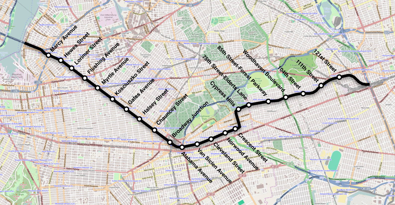 BMT Jamaica Line map